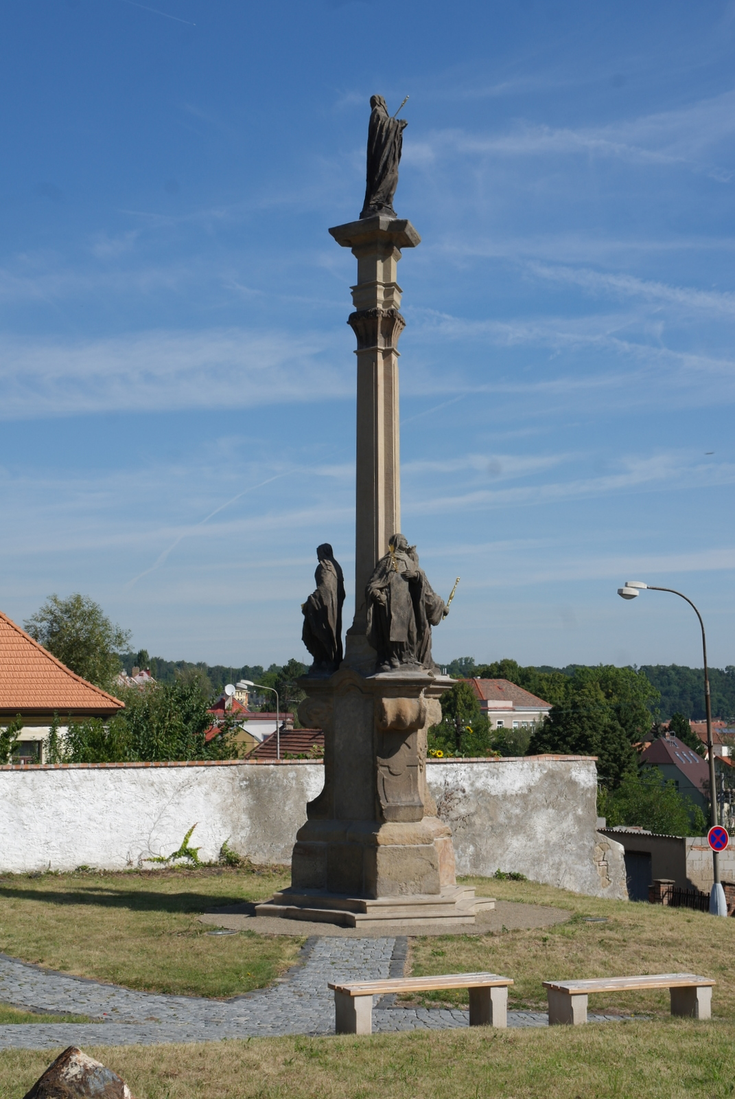 Column with the sculpture of the Virgin Mary of Sorrows (Kralupy nad Vltavou), Kralupy nad Vltavou, part Mikovice